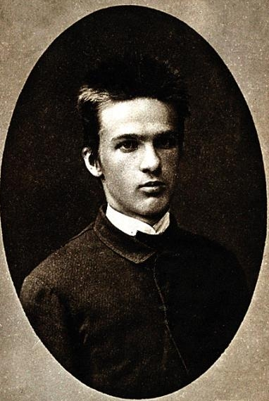 Józef Piłsudski 1885